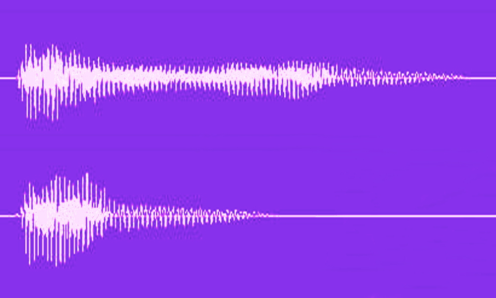 The sound of the words "Bahn" and "Bann" in comparison. "Bahn" (above) is pronounced with a long [a:], "Bann" (below) with a short [a].